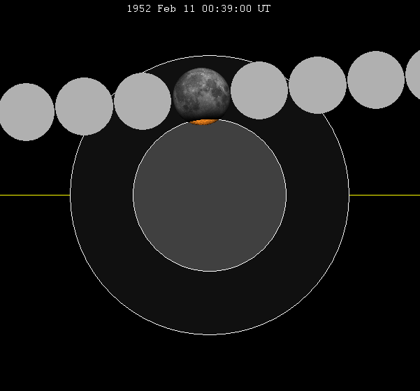 February 1952 lunar eclipse chart of moon's path through the earth's shadow. thumb